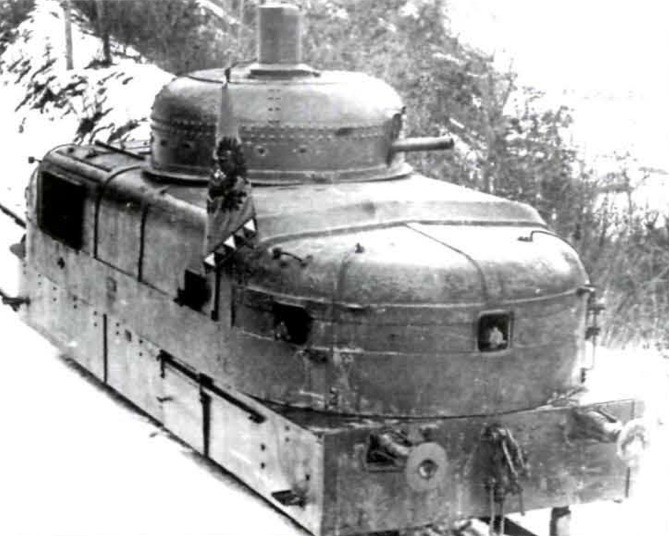 The Motorkanonwagen was the most futuristic Austro-Hungarian rail-cruiser of World War I. A rail-cruiser was a type of armored train, a self-propelled rail car with one or more fully-rotating turrets, akin to a tank on rails. This particular example was destroyed during the early days of the 1916 Romanian offensive into Transylvania.